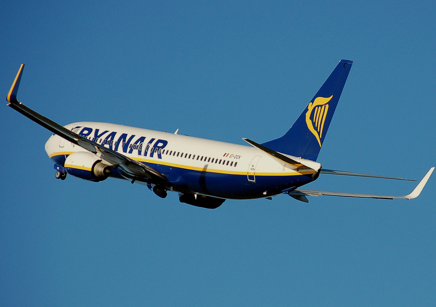 Ryanair Boeing 737-800 (registration EI-DCK) taking off from Bristol International Airport, Bristol, England.